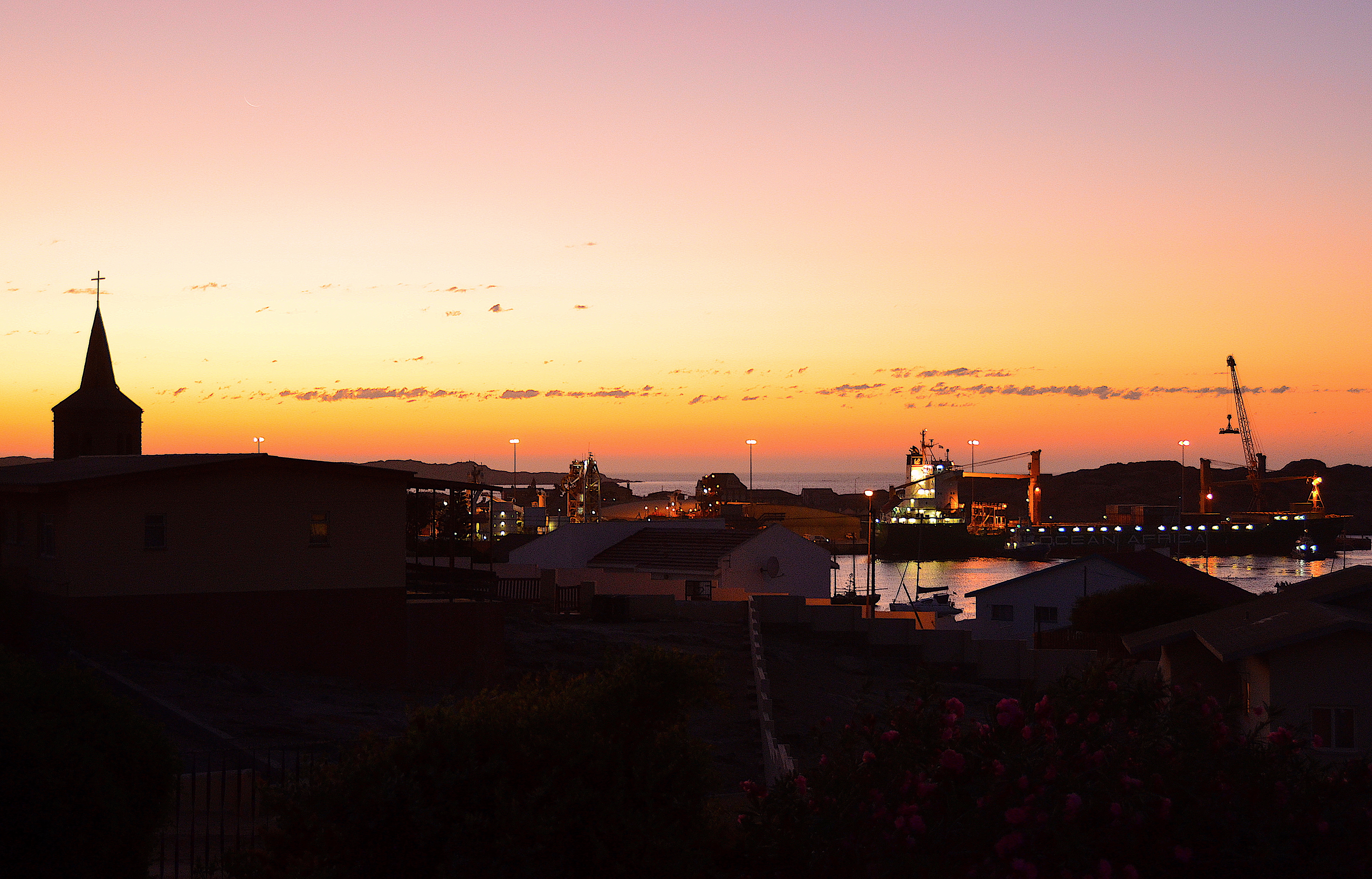 Belt of Venus seen from Harbour Lüderitz in Namibia (2017)